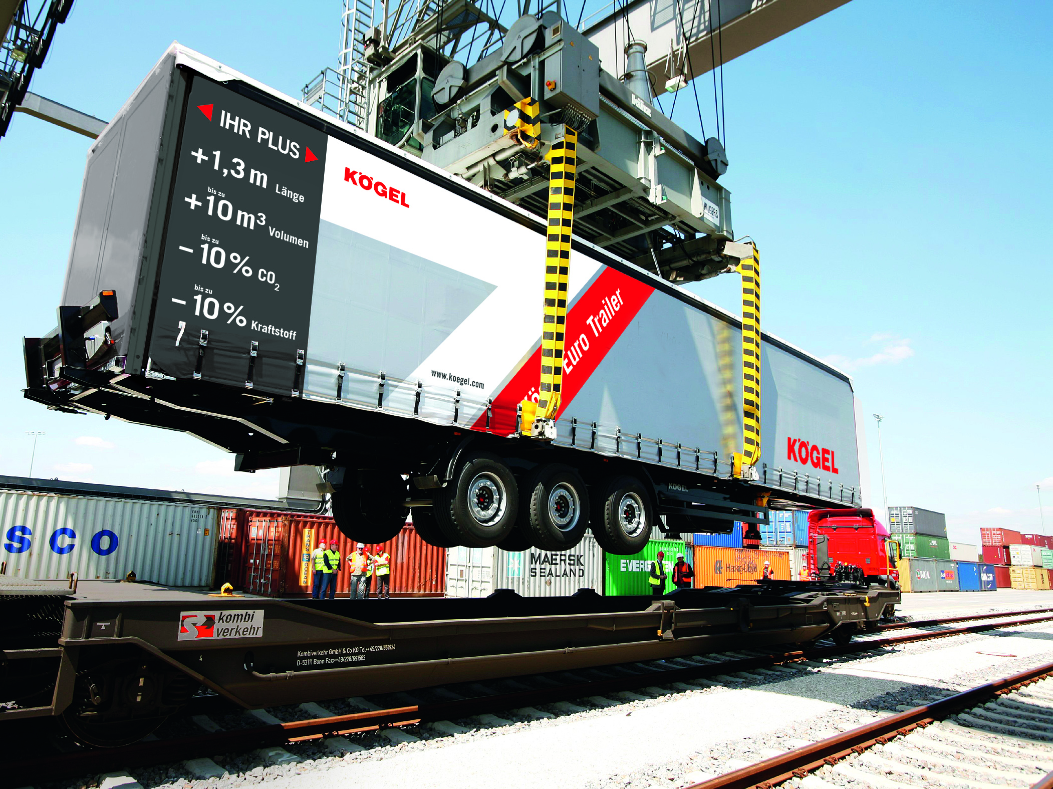 loading the Kögel Cargo Euro Trailer Rail onto a pocket wagon